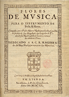 Cover of Manuel Rodrigues Coelho's "Flores musicales".